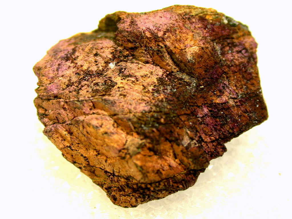 Heterosite, Ferrisicklerite Locality: Palermo No. 1 Mine (Palermo #1 pegmatite), Groton, Grafton County, New Hampshire, USA Original description: A 2.7 by 2.3 mass of purplish Heterosite with brown Ferrisicklerite. JSS specimen and photo.